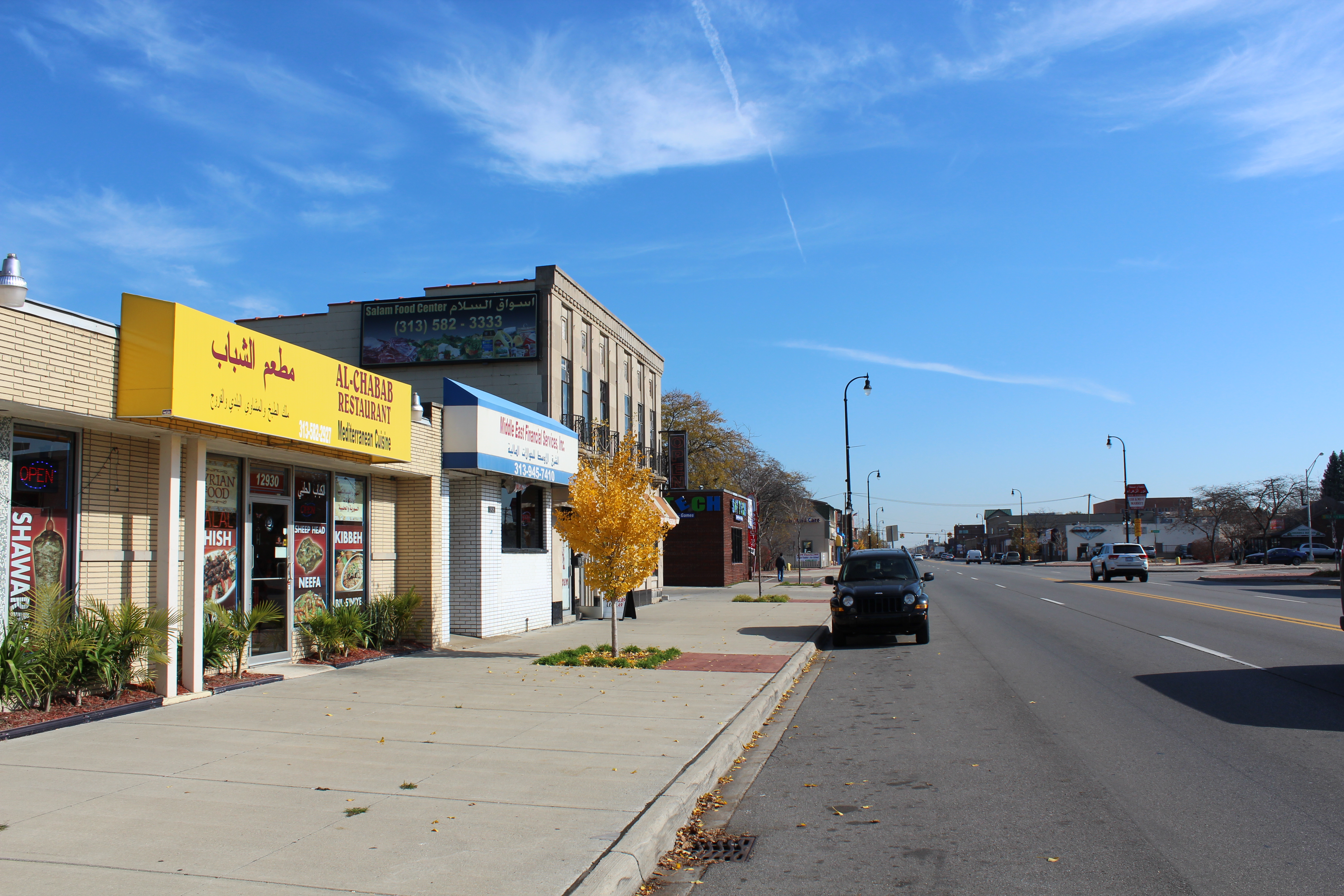 Restaurants and shops in the Arab quarter along Warren Avenue in Dearborn